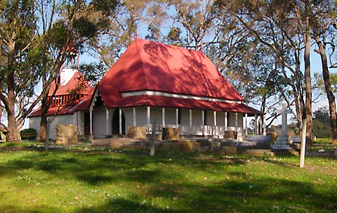 Saint Werburghs Chapel, Mount Barker, Western Australia. Built by George Edward Egerton-Warburton in 1873, utilising pug and clay from a nearby pit. The exquisite woodwork, probably in Albany she-oak (Casuarina spp.)and locally sourced jarrah (Euc. marginata). The chapel sits atop a small hill, surrounded by undulating partly forested farm land, and is accessed by a reasonably good unsurfaced road. (Source: Mount Barker Walks, wine and wildflowers Visitor Guide, Mount Barker Western Australia.)